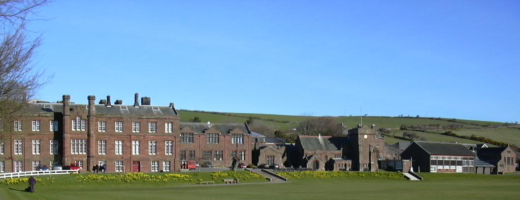 Photograph taken by user in 2004. I hereby release all rights appended to it for inclusion upon Wikipedia.